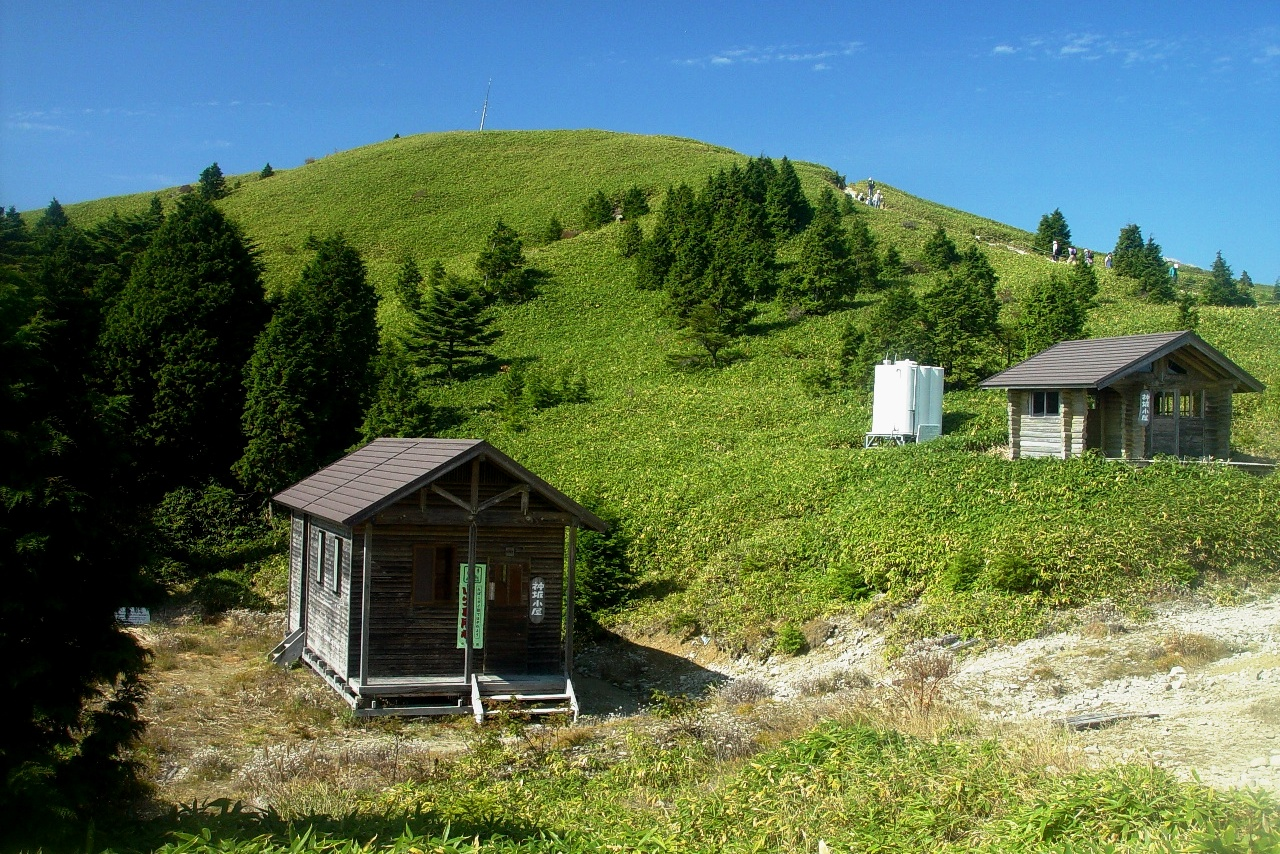 Huts Kamisakagoya in Mount Misaka, Kiso Mountains, Japan.